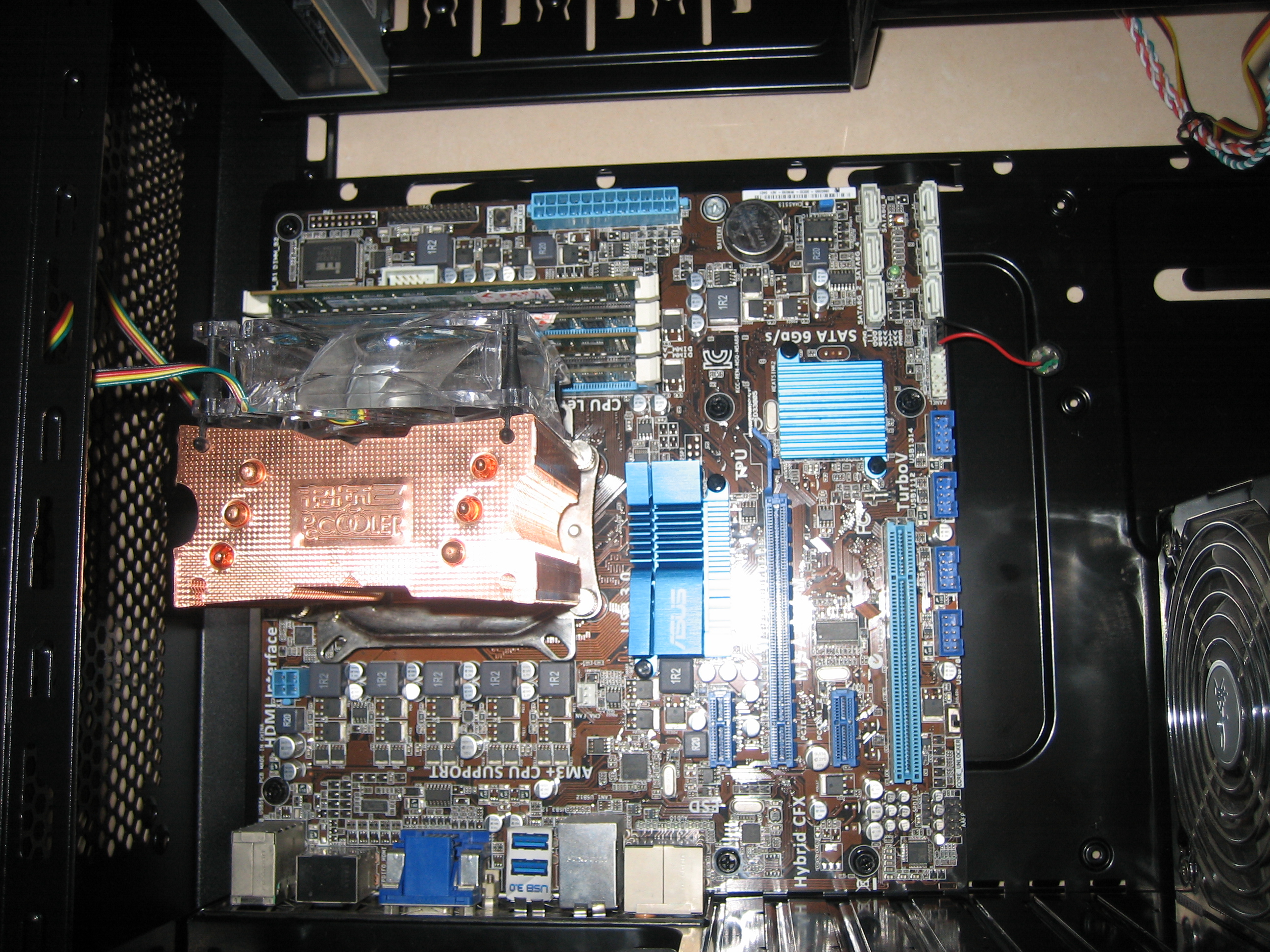 An ASUS mainboard with CPU (and cooler) and memories installed.